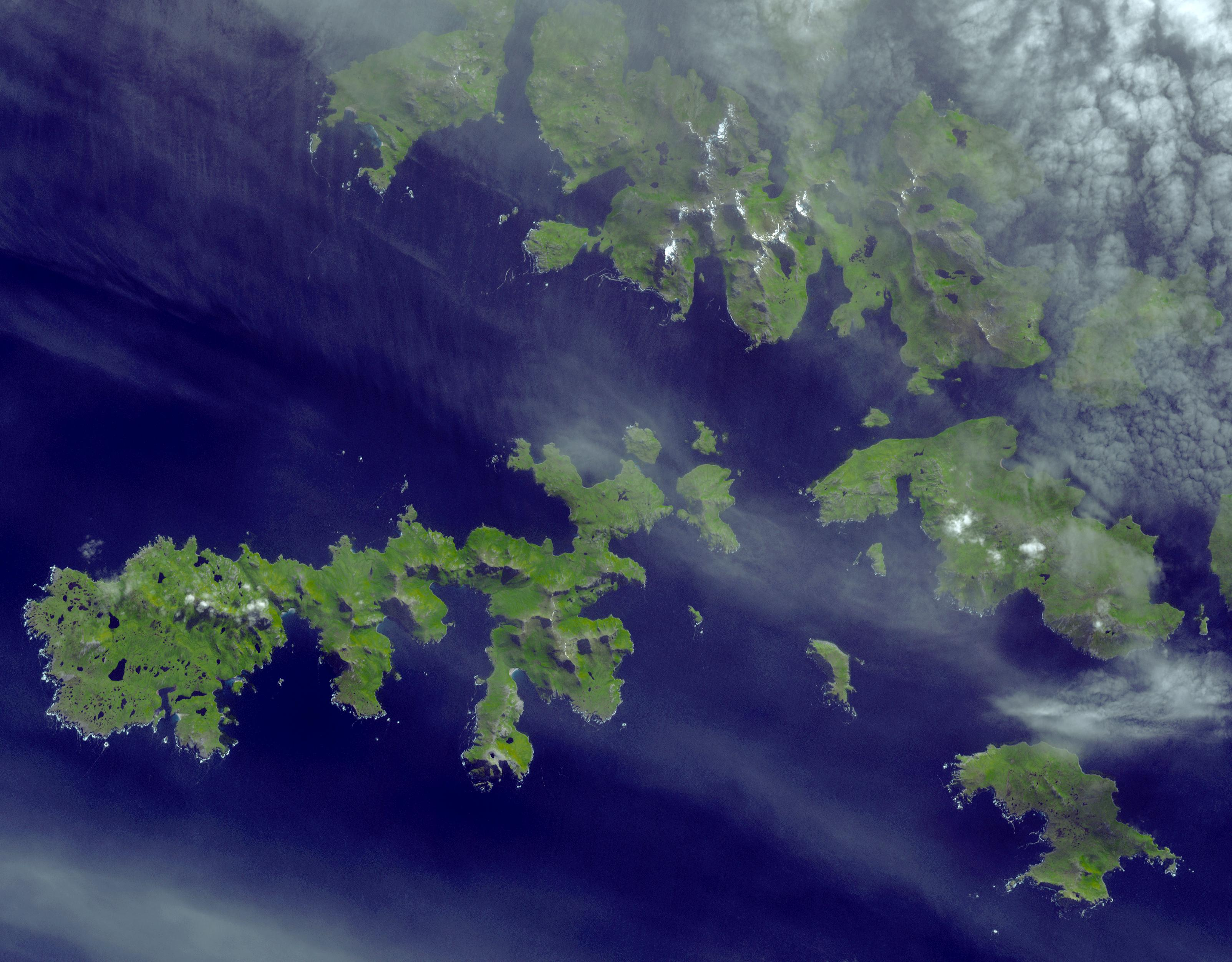 Satellite image of the Wollaston Islands (upper right), the Hermite Islands (center) and Cape Horn (lower right)